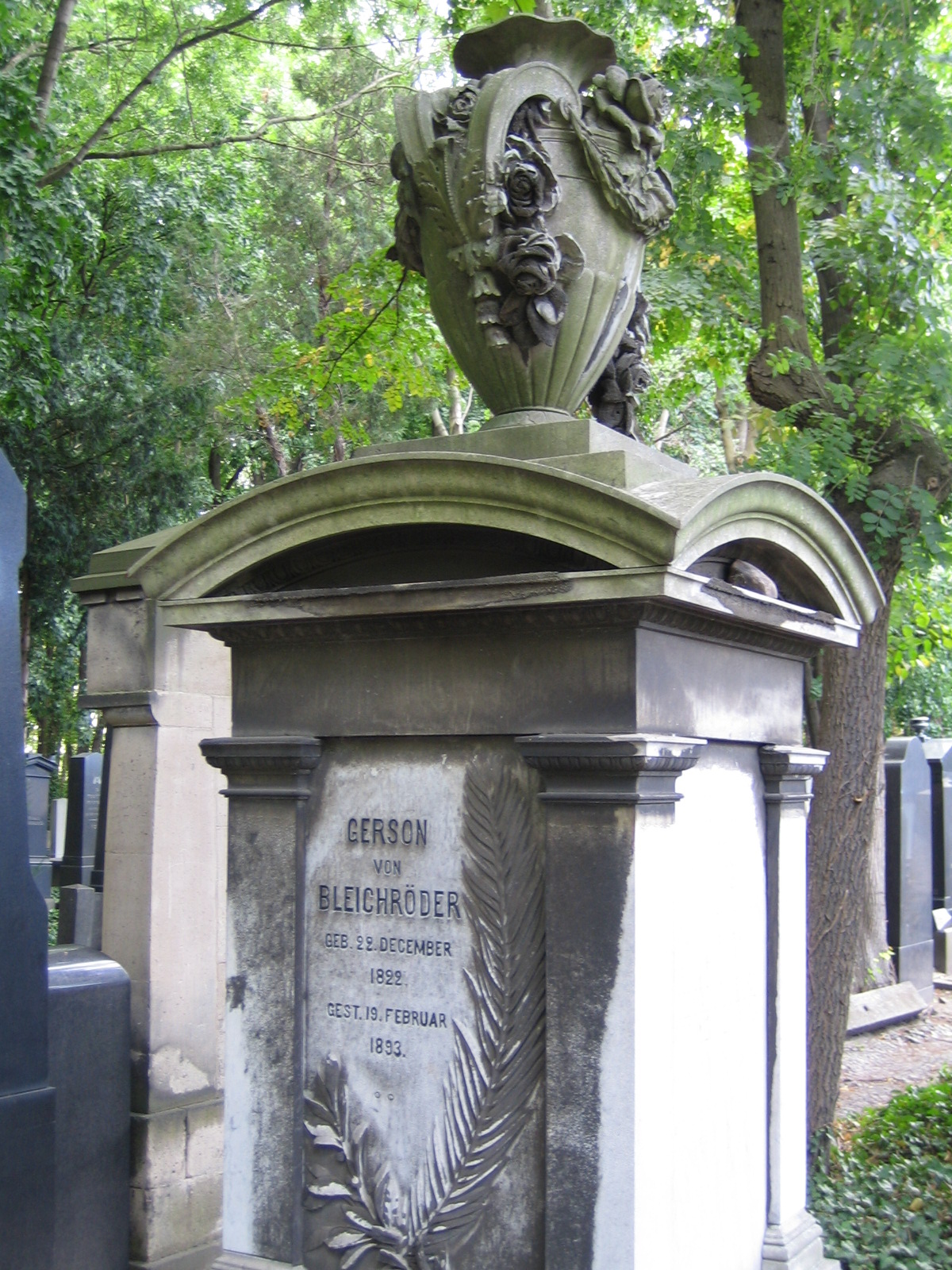 Jewish cemetery Berlin Schoenhauser Allee. Tomb of Gerson von Bleichroeder.